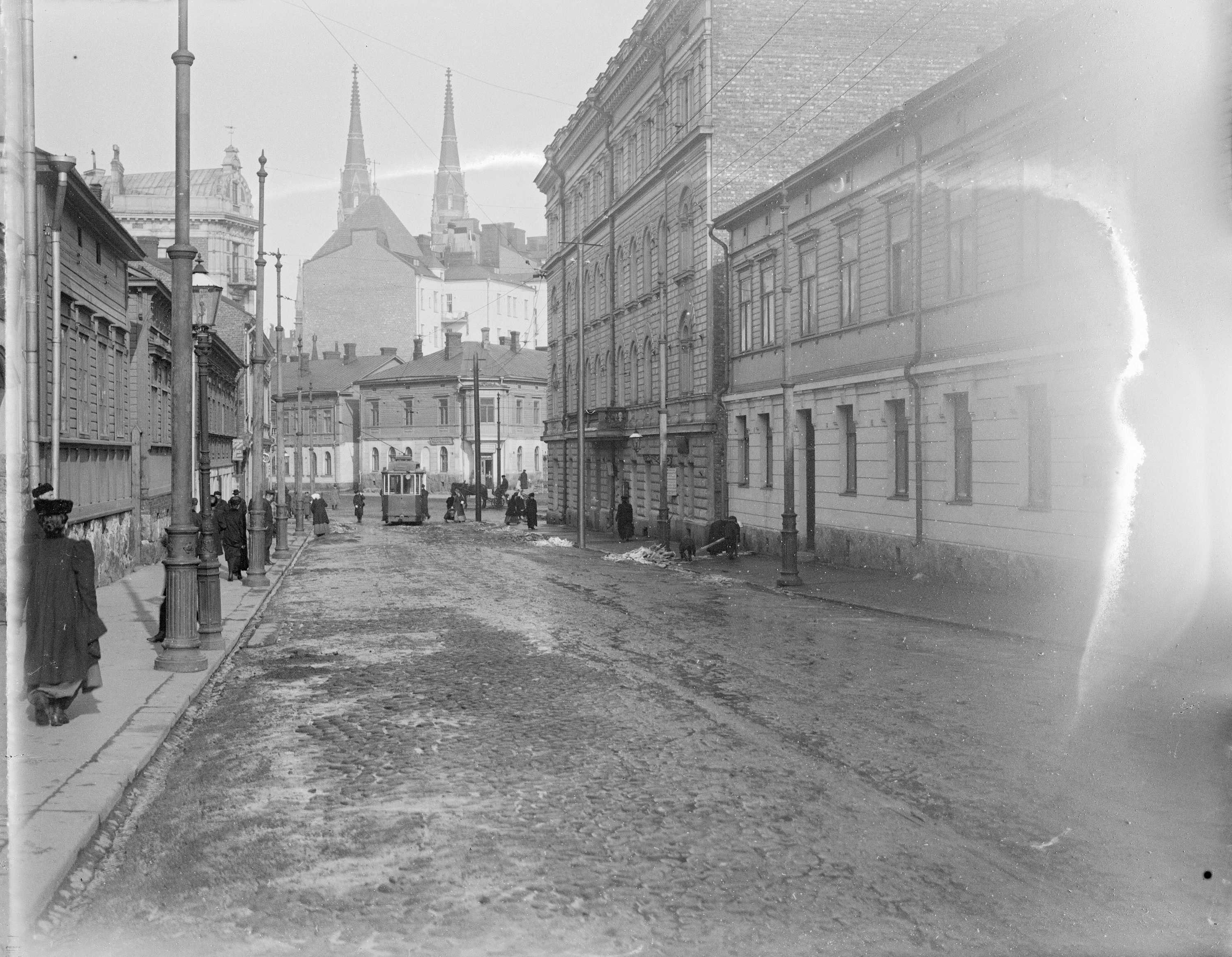 Båtsmansgatan vid Femkanten. Johanneskyrkans spiror i bakgrunden. Foto Gustaf Sandberg. sls1849_225 Ur boken Helsingfors i ord och bild Utgiven av Svenska litteratursällskapet i Finland, 2012